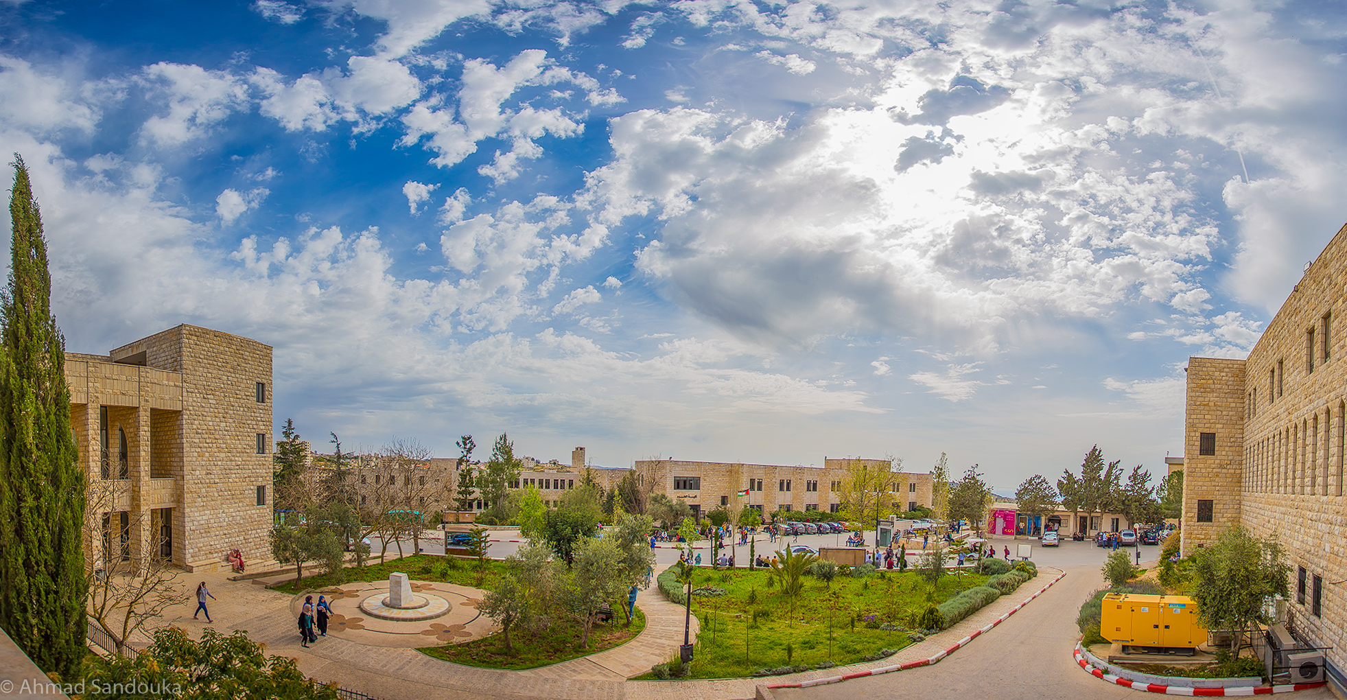 جامعة بيرزيت